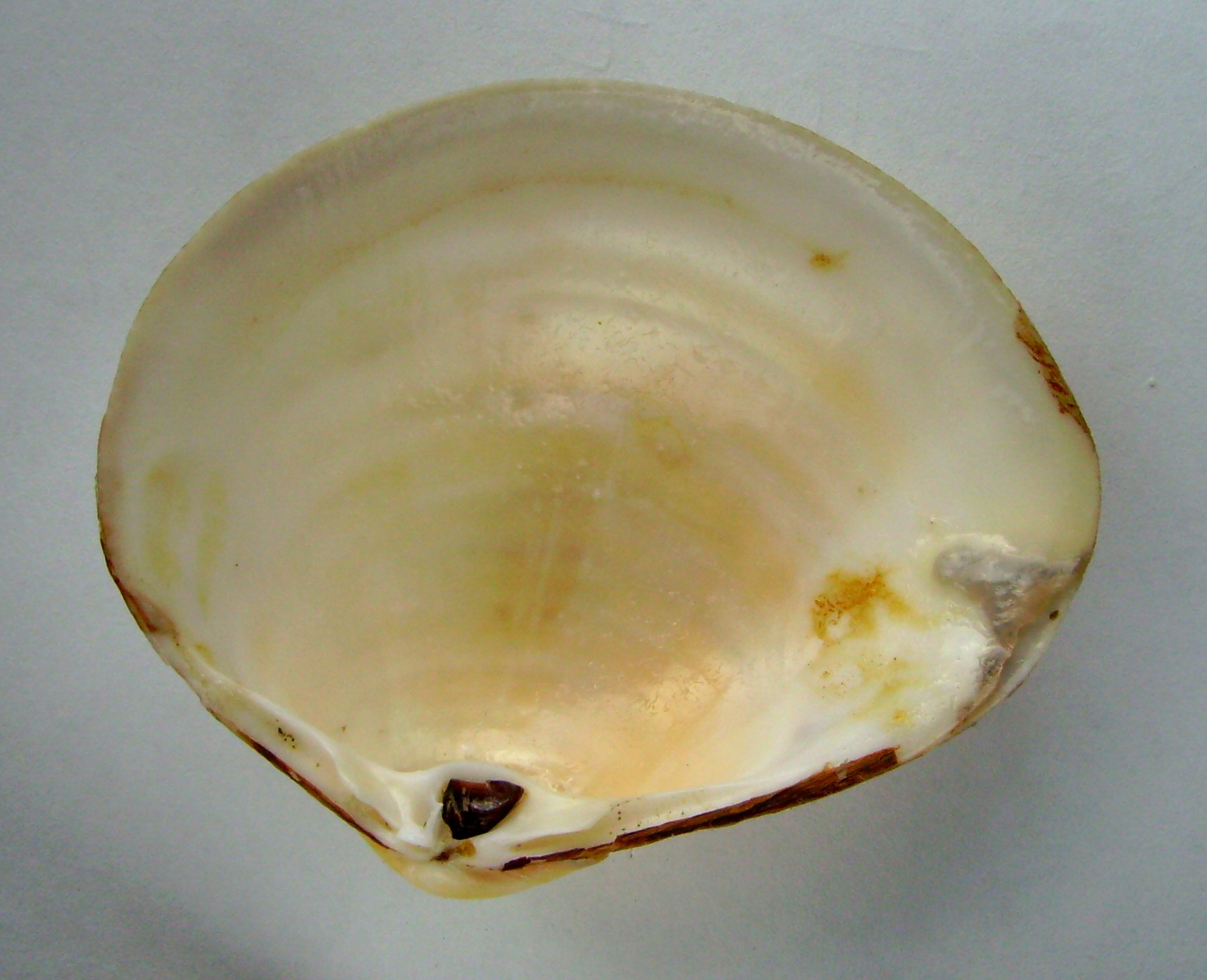 Mactra ovata ovata (inside) from New Zealand. This work has been released into the public domain by its author, Graham Bould. This applies worldwide. In some countries this may not be legally possible; if so: Graham Bould grants anyone the right to use this work for any purpose, without any conditions, unless such conditions are required by law.